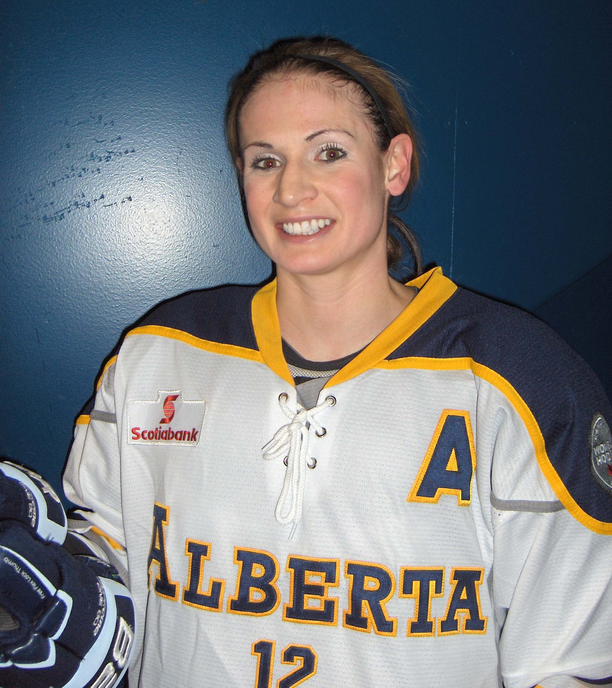 Alberta CWHL - Canadian Women hockey